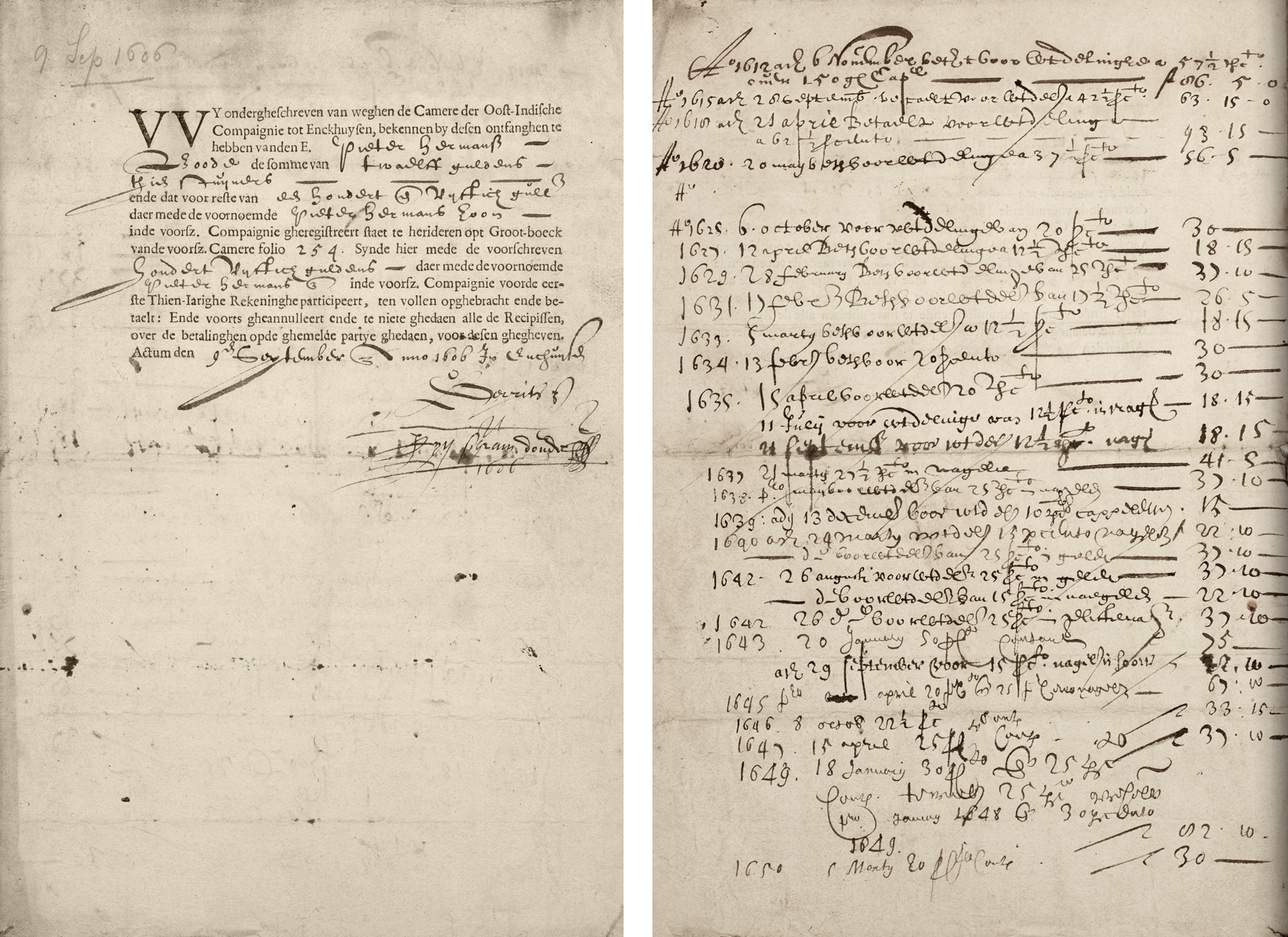 Ruben Schalk, history student at the Universiteit Utrecht, discovered (2010) the so far oldest share in the world in the Westfries Archief in Hoorn. The certificate dates from September 9th, 1606 and was issued by the VOC-chamber Enkhuizen. It was sold to Pieter Hermanszoon Boode. The second page records the payments of dividend.